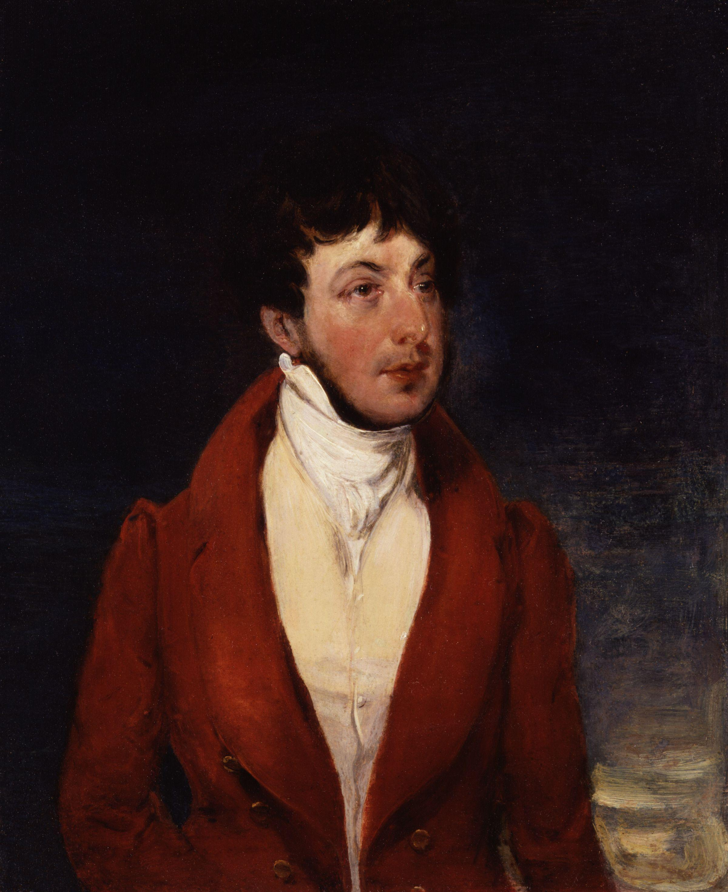 George Osbaldeston, by Sir Francis Grant (died 1878). All images in this batch have been confirmed as author died before 1939 according to the official death date listed by the NPG.